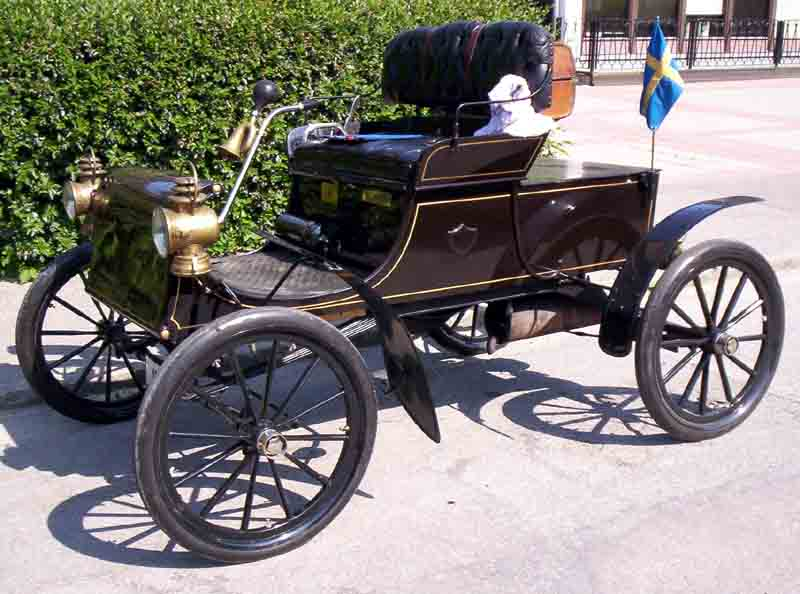 Northern Runabout 1902